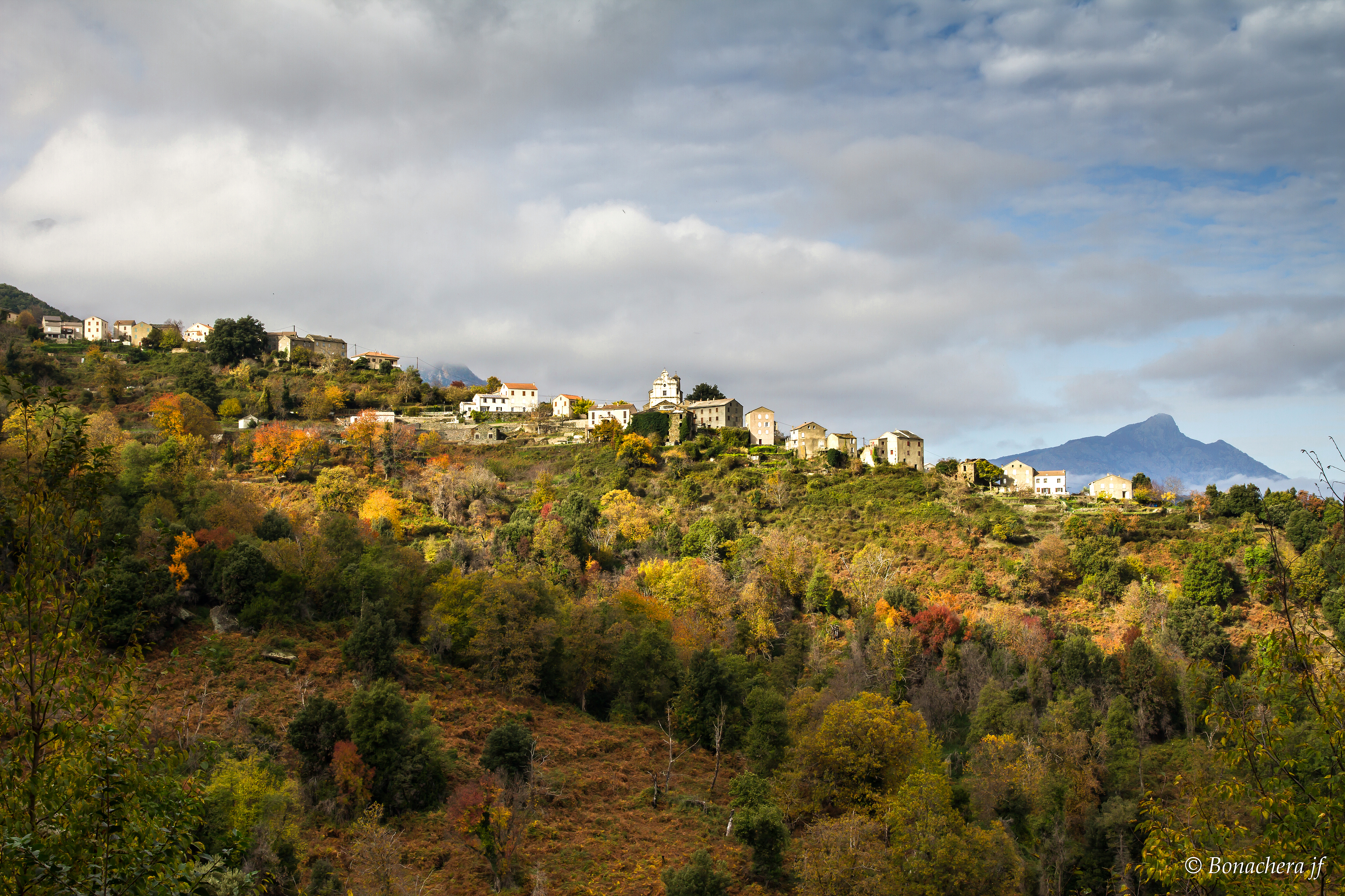 ..le village de Novale (a nuvale) avec, en fond, le San PEDRONU